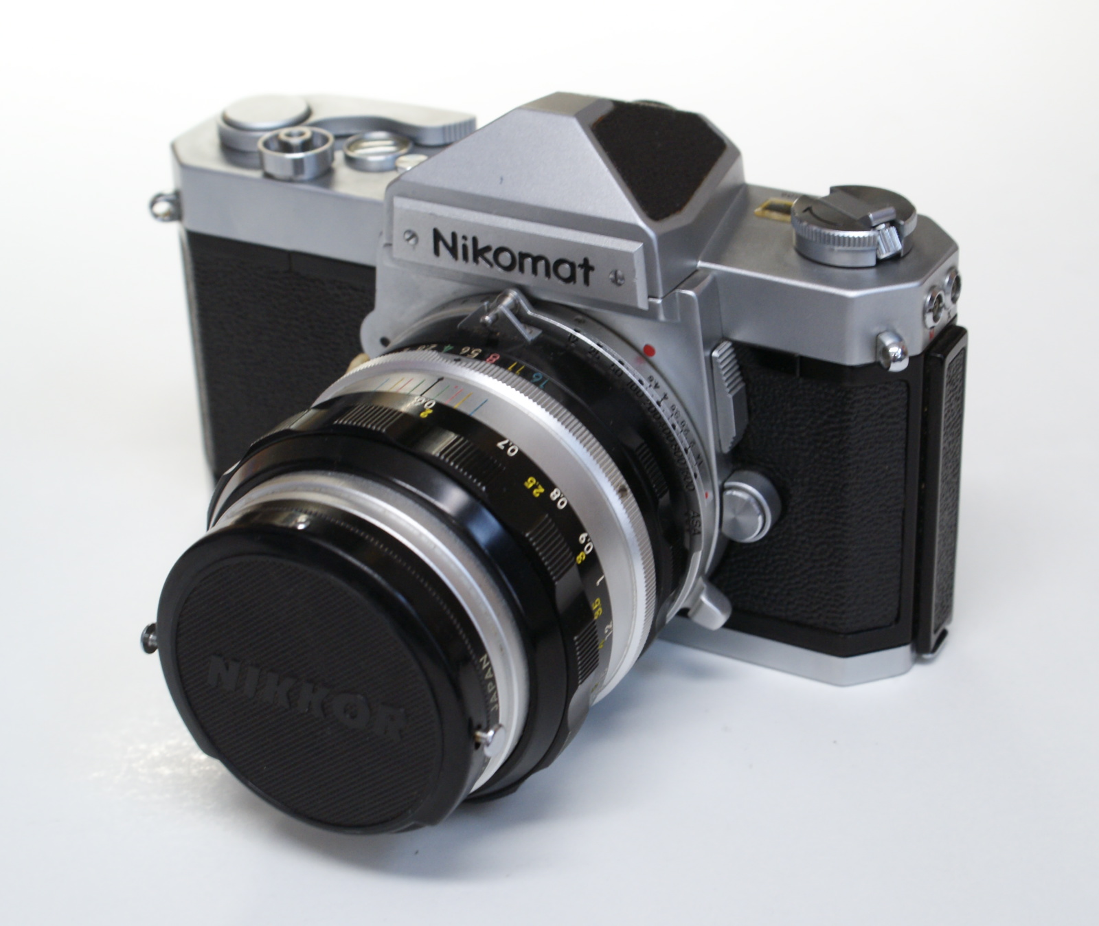 Nikon Nikomat FT SLR Camera + Nikkor-S 50mm F1.4